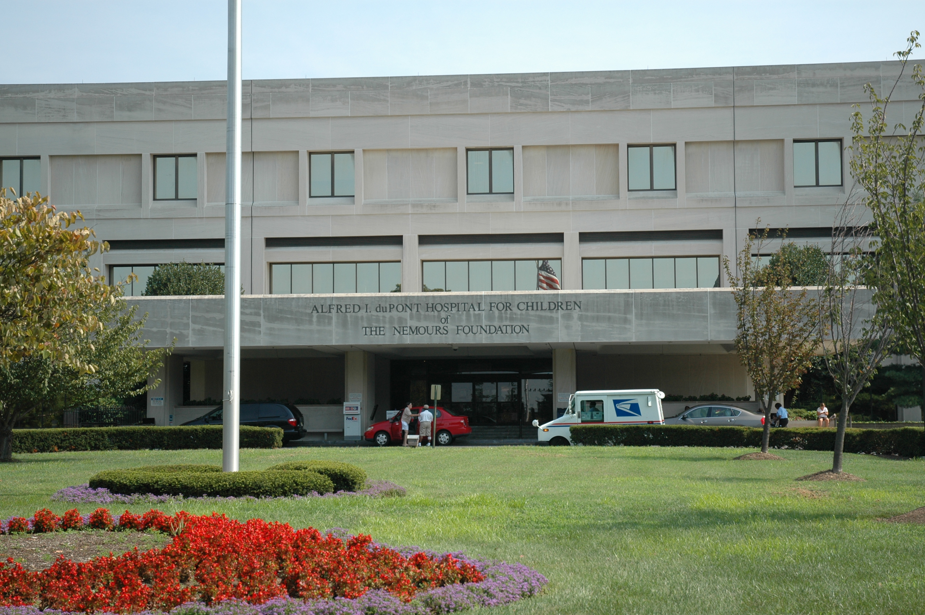 Front view of the Alfred I. duPont Hospital for Children in Wilmington, DE